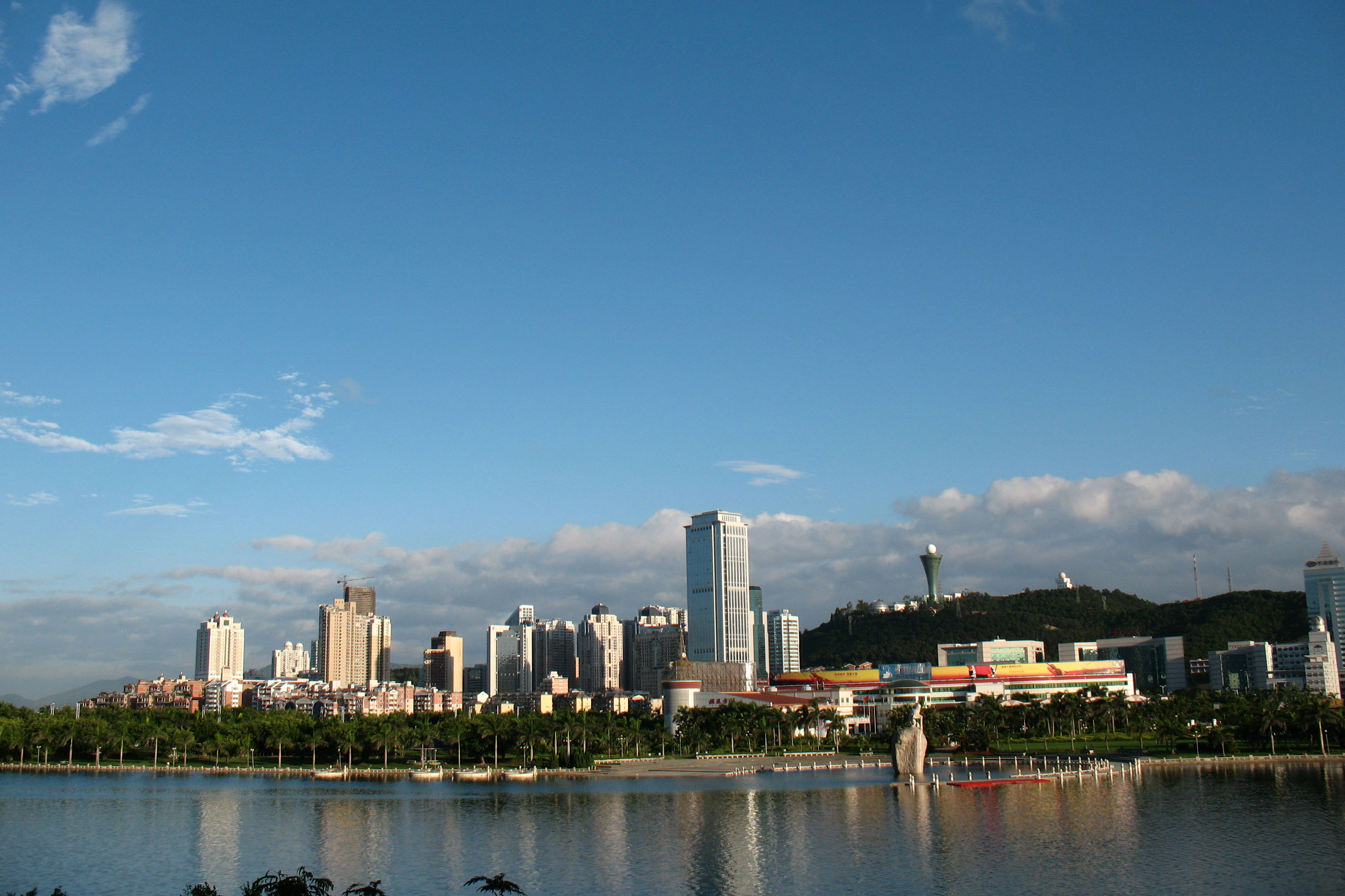 the look-out from south of Yundang Lake, Xiamen